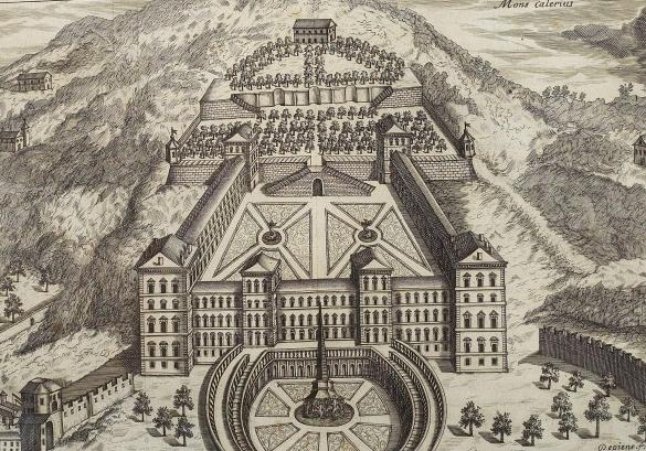 Moncalieri in 1711